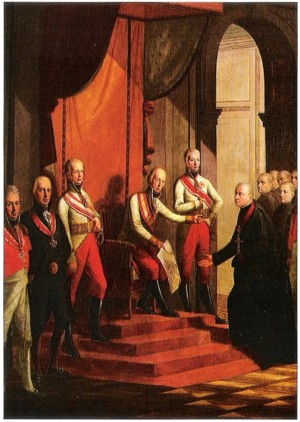 Handover of St. Paul's Abbey [in the Lavanttal] to abbot Rottler (Detail) - 1809